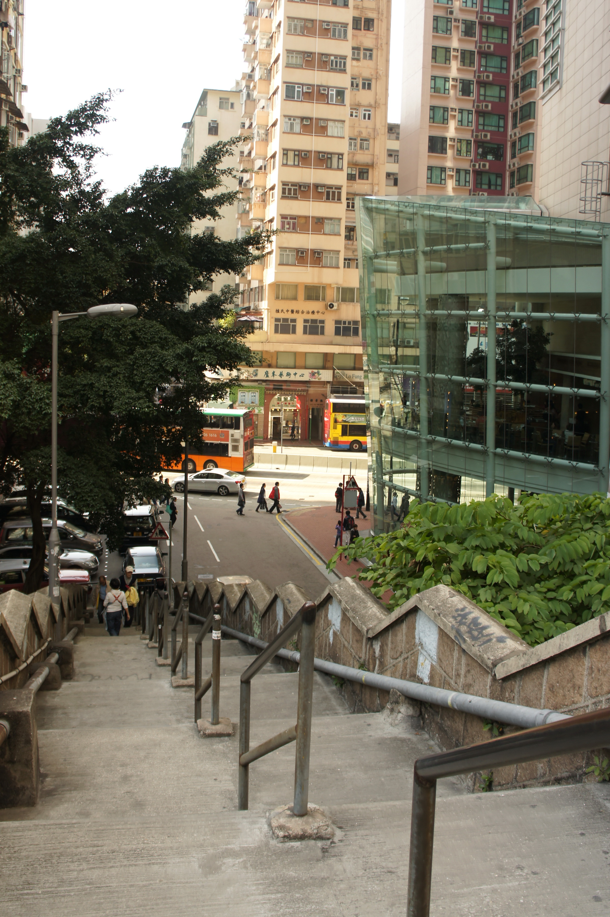 Stairs on Lau Sin Street, Causeway Bay, Hong Kong. L'Hotel Causeway Bay Harbour View is on the right.